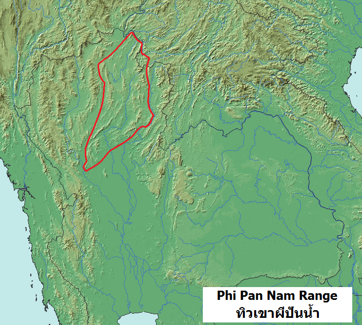 Map with the outline of the Phi Pan Nam Range (Thai: ทิวเขาผีปันน้ำ)